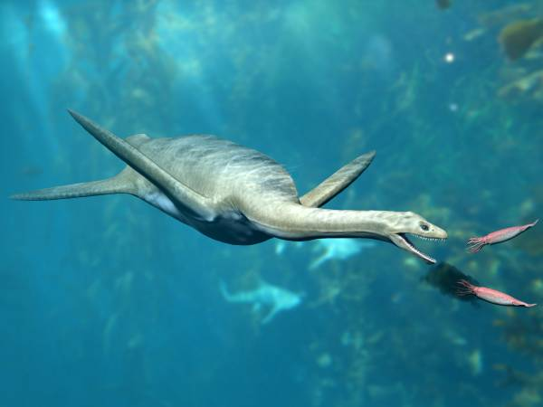 Life reconstruction of Kaiwhekea katiki